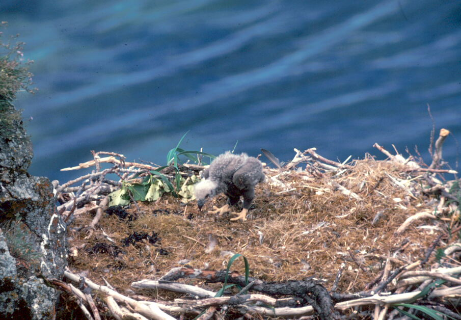 Bald eagle (Haliaeetus leucocephalus) in its nest. Taken from the Digital Library System of the FWS.